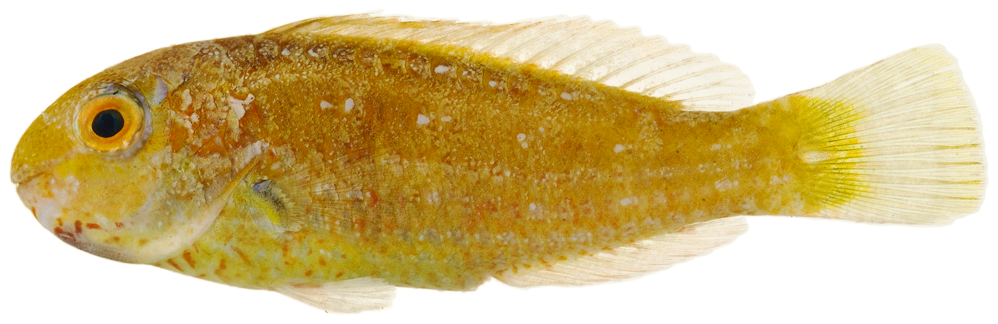 Sparisoma radians (Valenciennes, 1840)—bucktooth parrotfish, 51.6 mm SL, juvenile color phase. Photo by JT Williams.